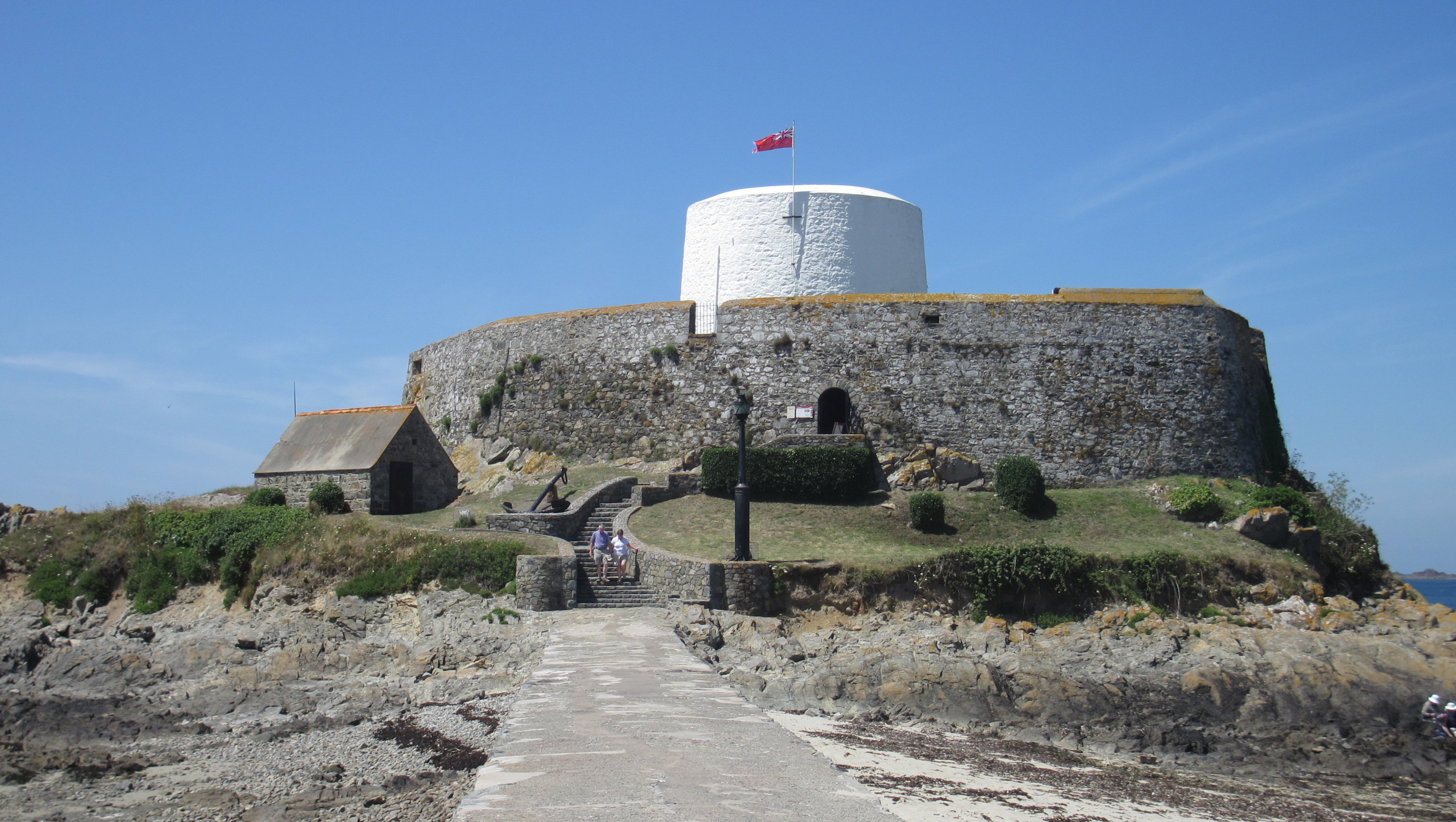 Guernsey, June-July 2011, Fort Grey